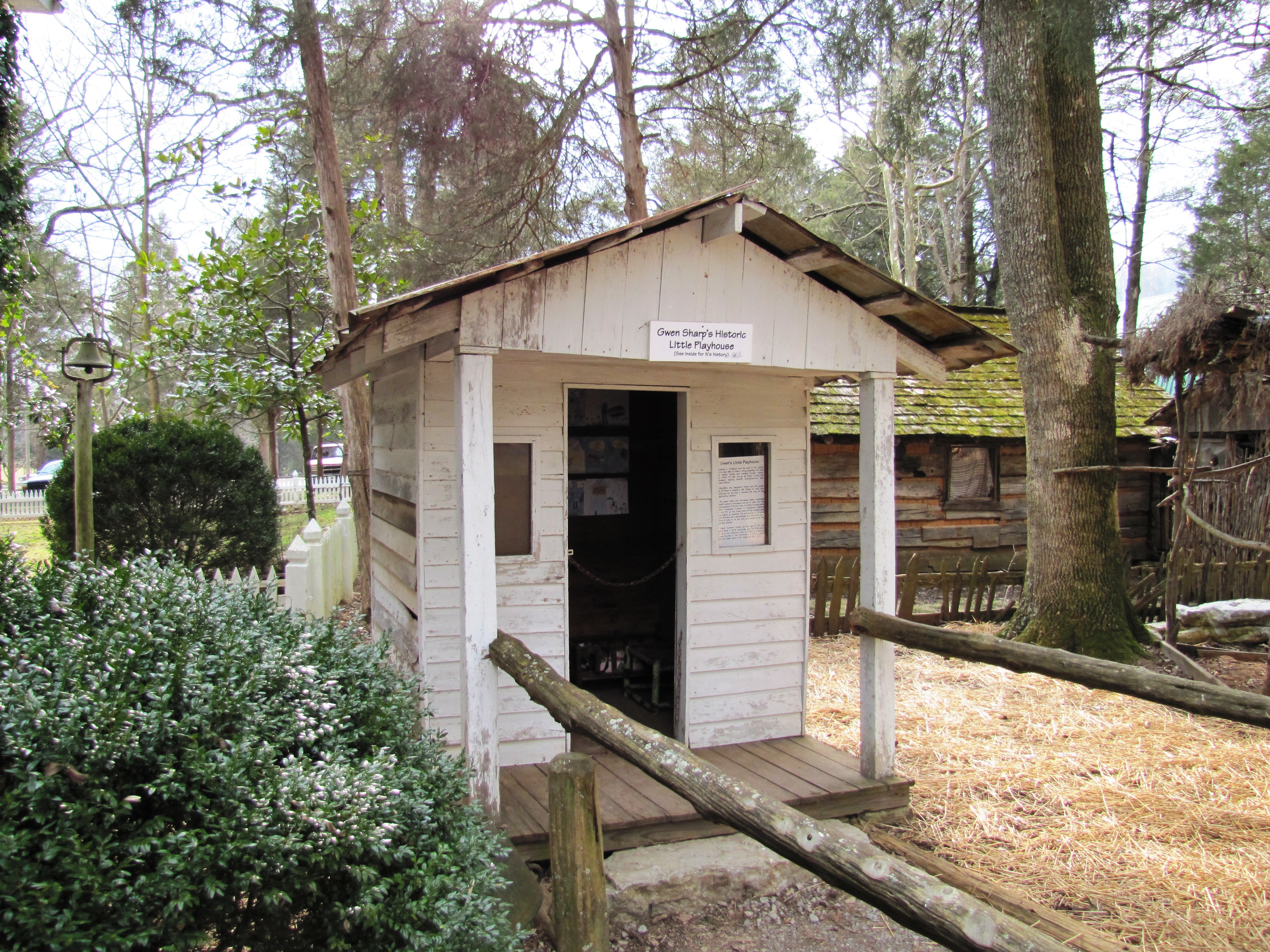 Gwen Sharp's playhouse at the Museum of Appalachia in Norris, Tennessee, USA. Built in 1929 by a neighbor of Gwen Sharp (b. 1924), this children's playhouse is believed to be the last surviving intact structure from the now-defunct community of Loyston, Tennessee, once located north of modern Big Ridge State Park in Union County. Loyston was completely submerged by the construction of Norris Reservoir in the 1930s. Sharp, who was five years old when the playhouse was built, donated it to the museum in 2008.